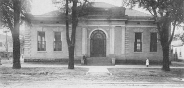 The Carnegie Library in Selma, Alabama